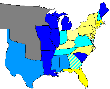 Summary of party control of U.S. house seats in the 30th United States Congress following election. Stripes indicate a tie between two or more parties. Legend: 80.1-100% Democratic seat majority 60.1-80% Democratic seat majority 60% or less Democratic seat plurality 60% or less Whig seat plurality 60.1-80% Whig seat majority 80.1-100% Whig seat majority